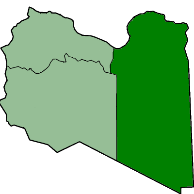 Cyrenaica Governorate (dark green). After independence in 1951, until 1963, Libya was divided into three governorates (muhafazat): Cyrenaica, Tripolitania, and Fezzan.